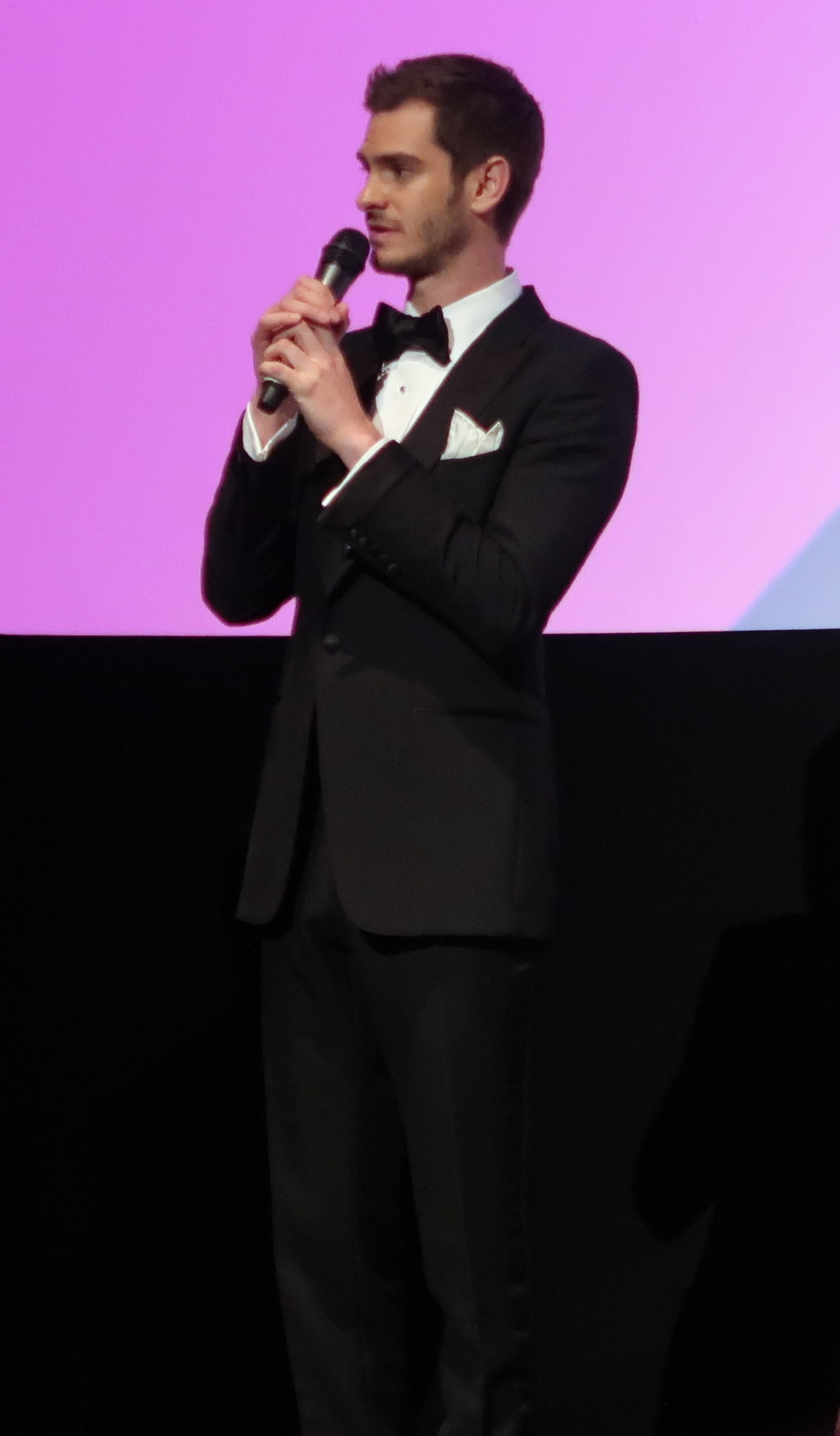 Andy Serkis, Jonathan Cavendish, Andrew Garfield, Claire Foy and Diana Cavendish at the Breathe premiere